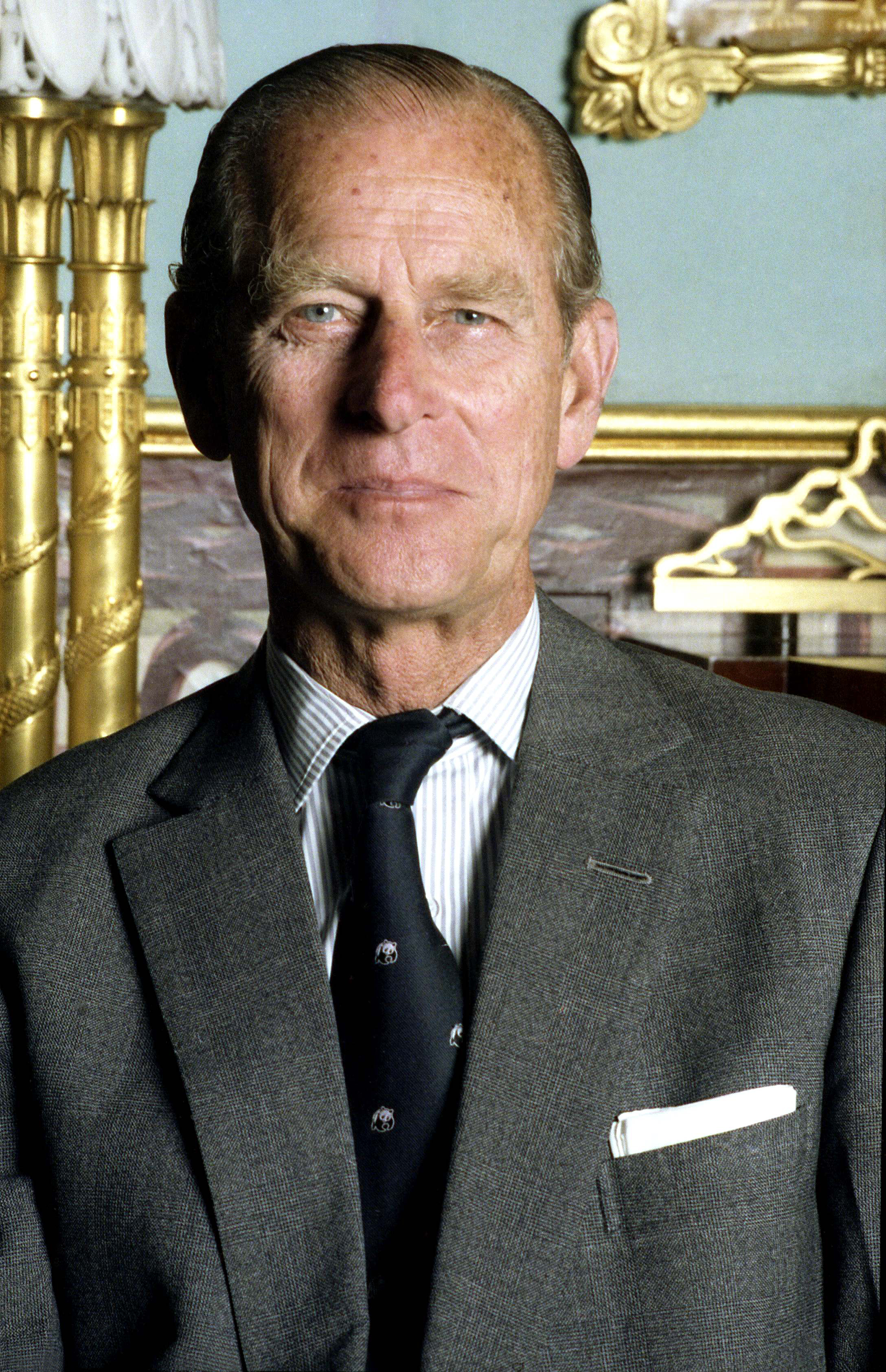 HRH The Duke of Edinburgh taken at Buckingham Palace